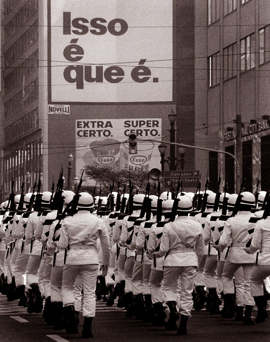 Livro 30 anos